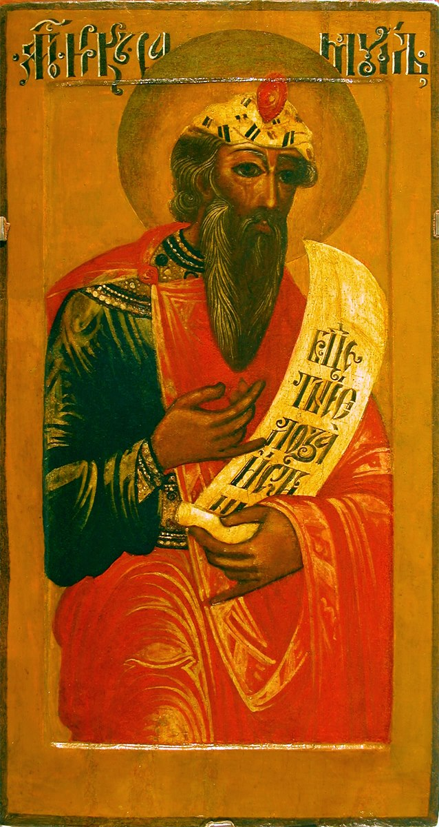 Icon of the prophet Samuel from the 17th century. Tempera on wood. In the collection of the Donetsk regional art museum.